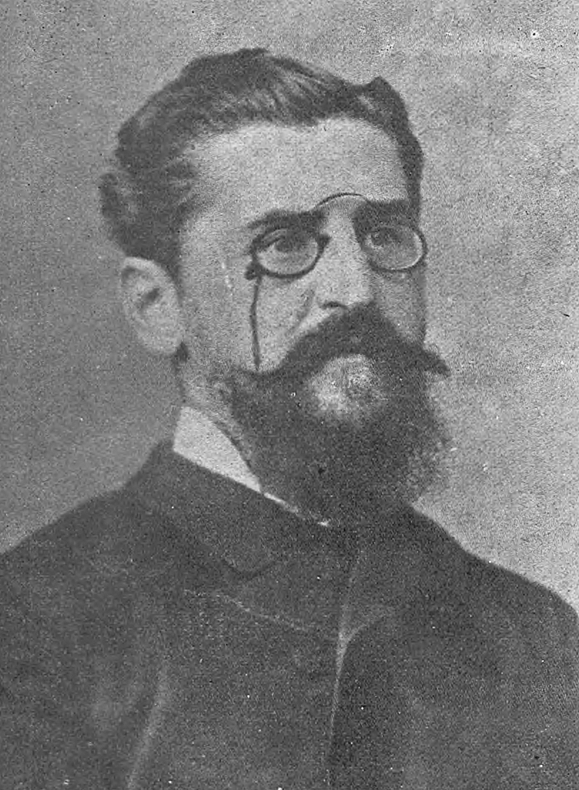 Karol Lewakowski - polish politician